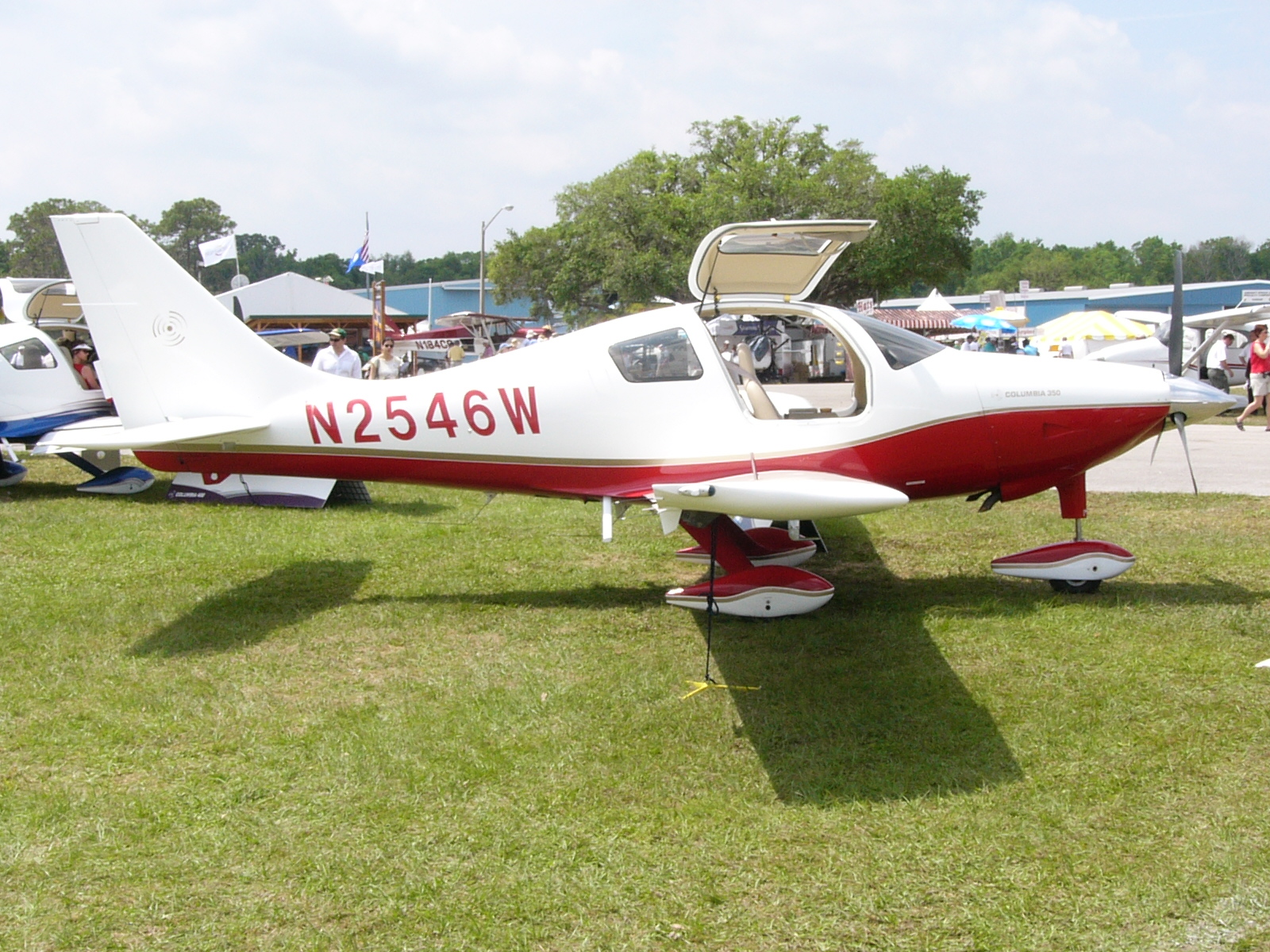 Photo of a Columbia 350 now a Cessna 350 (N2546W) at Sun 'n Fun 2006